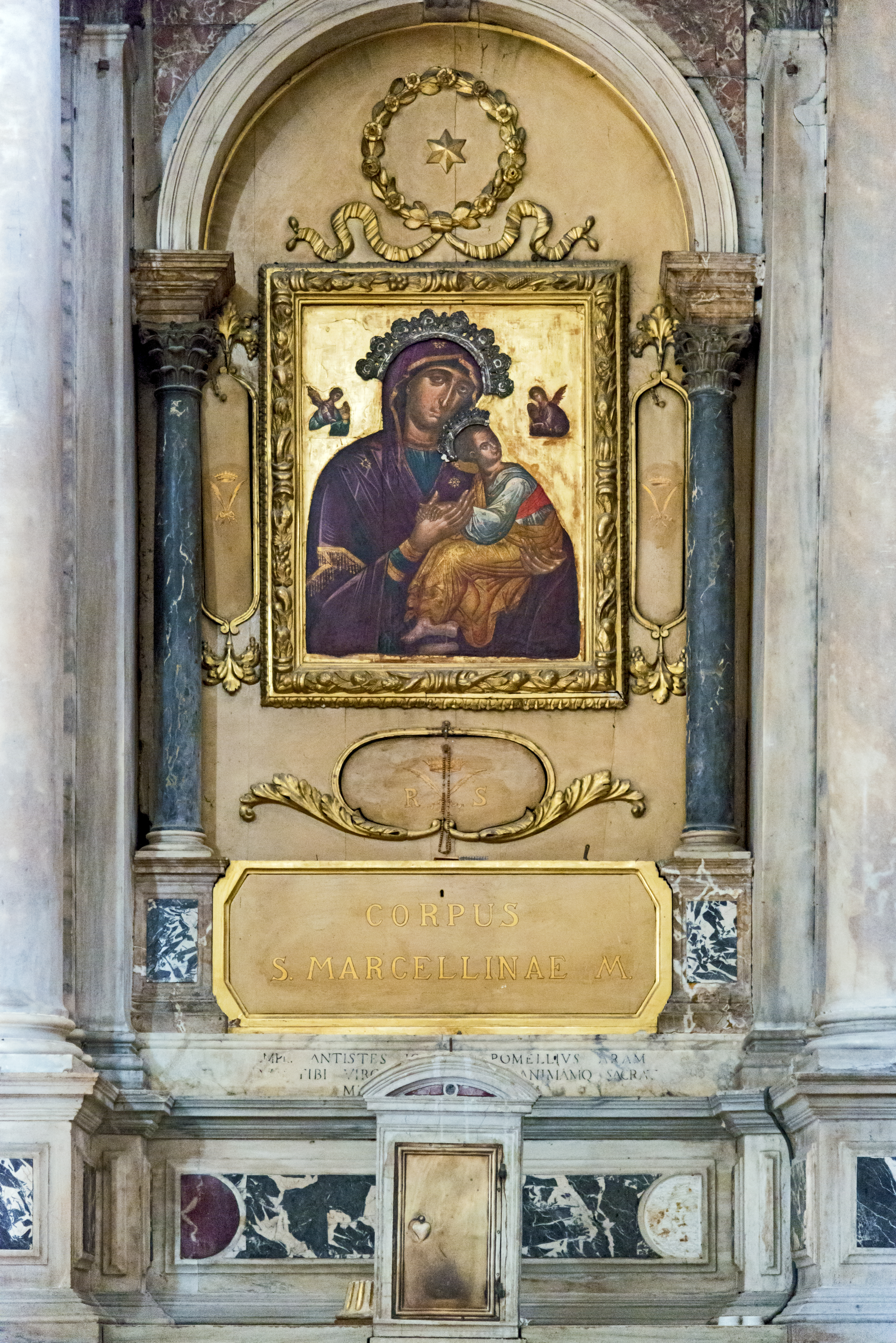 Church of San Fantin Venice - miraculous icon of the Virgin